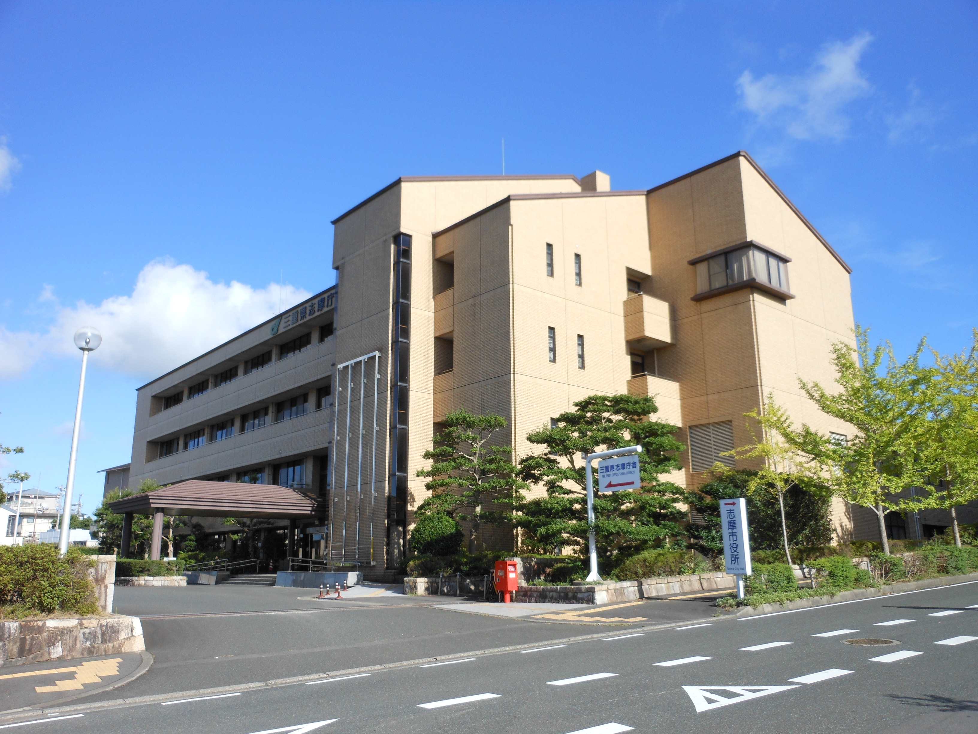 This is the Shima building of Mie prefectural government. This building is located in Agocho-Ugata, Shima, Mie, Japan.